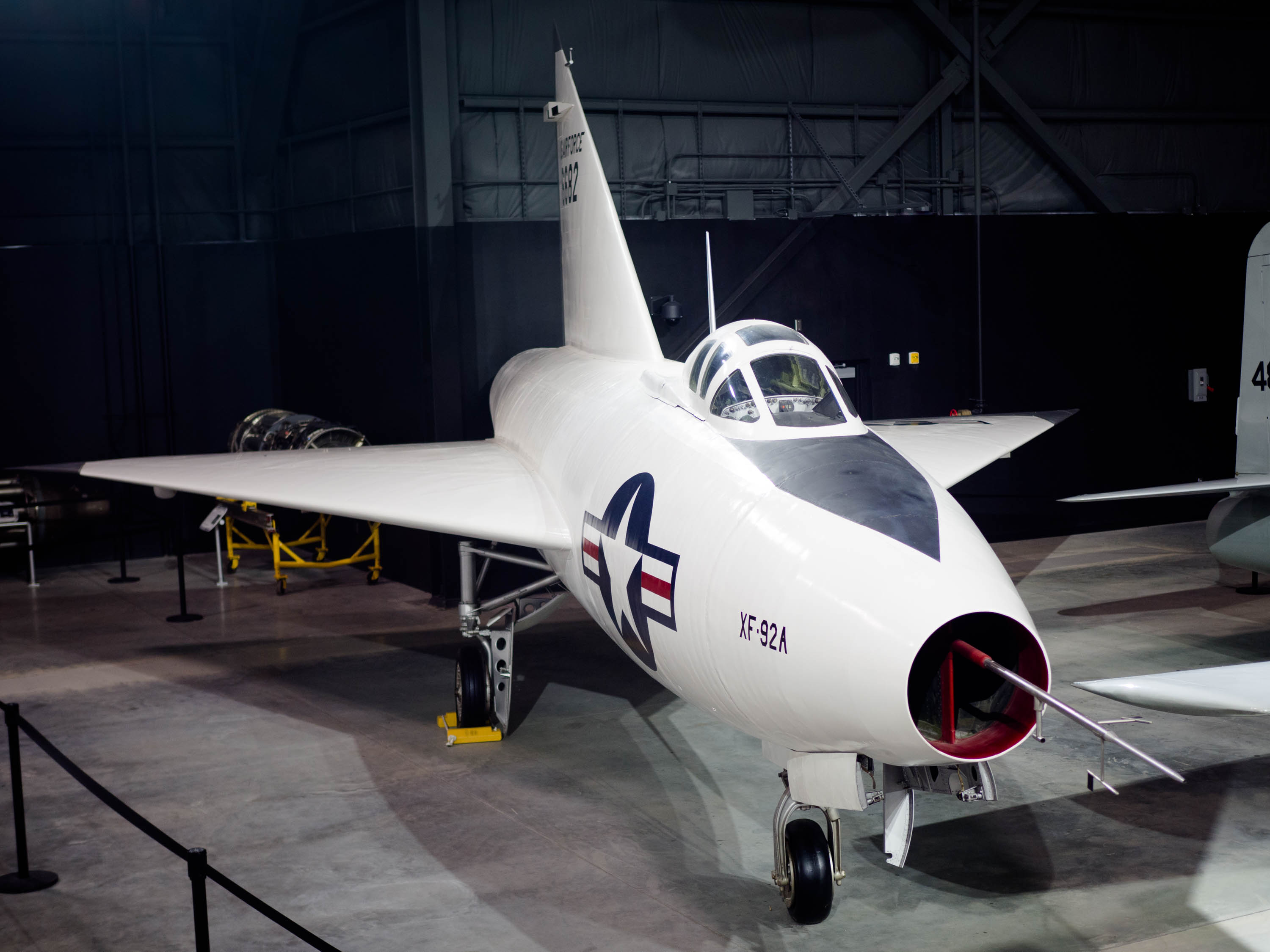 XF-92A at USAF Museum on August 31, 2017.